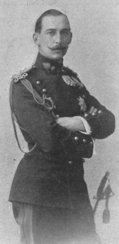 Prince Nicholas of Greece and Denmark (1872-1938) in 1902.